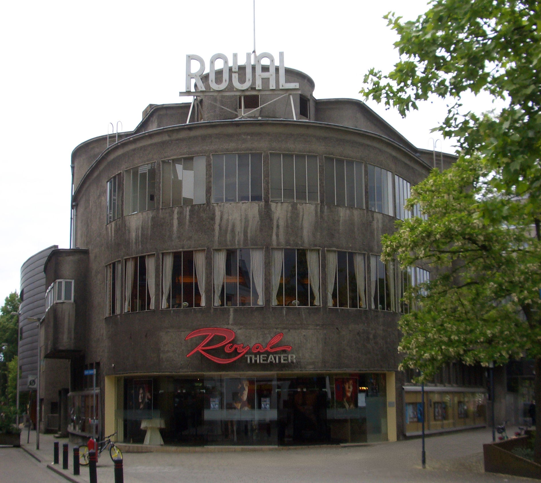 Movie Theather "Royal" in Heerlen